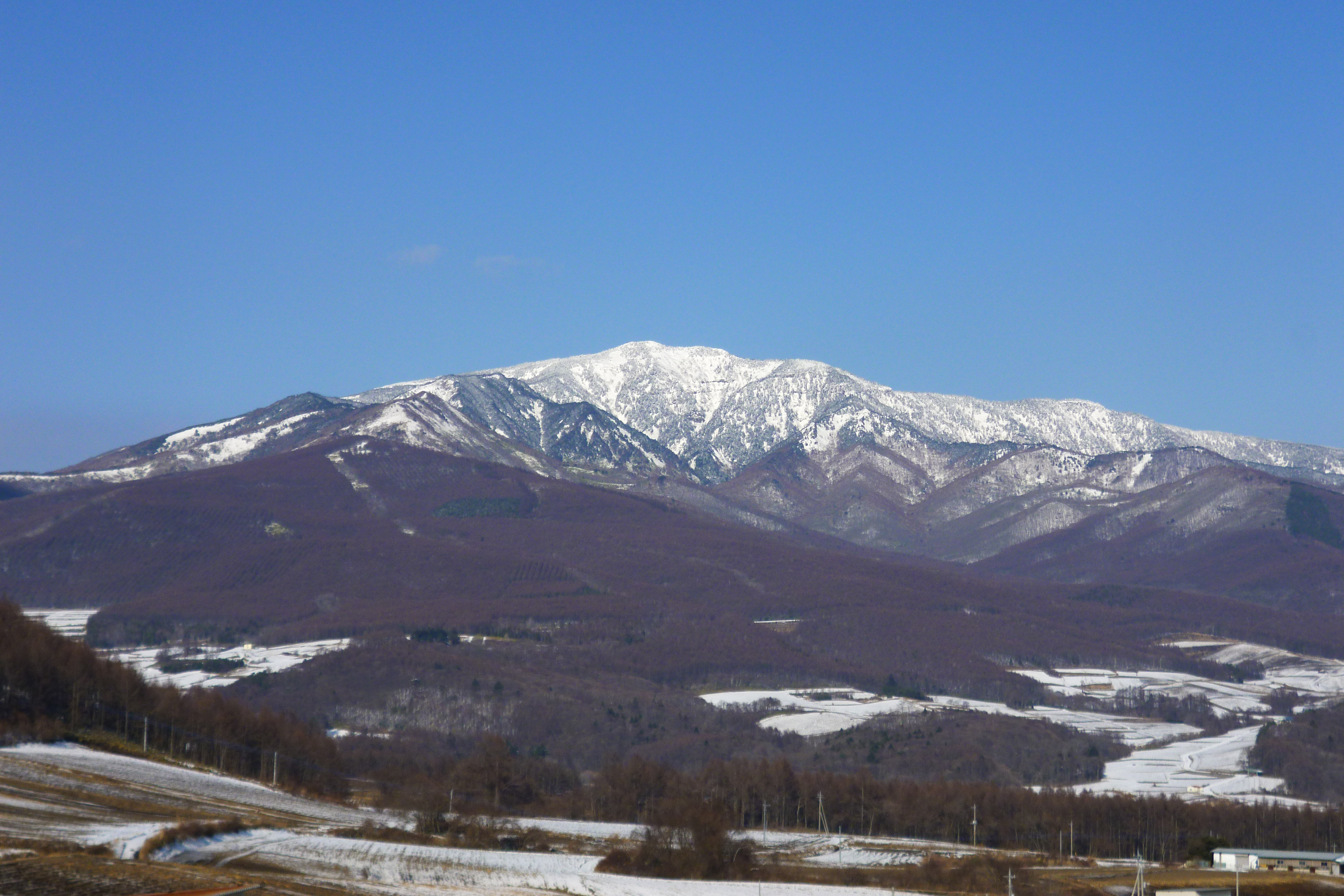 Mount Azumaya in Kantō region, Japan. A view from the road, called Tsumagoi Panorama Line in Tsumagoi, Gunma.